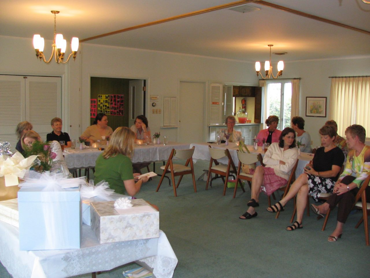 Bridal Showers traditionally involve giving gifts to future wives.